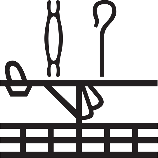 This ancient Egyptian hieroglyphic sign is the 13th nomos of Lower-Egypt. This sign was made with JSesh And then imported in The GIMP.